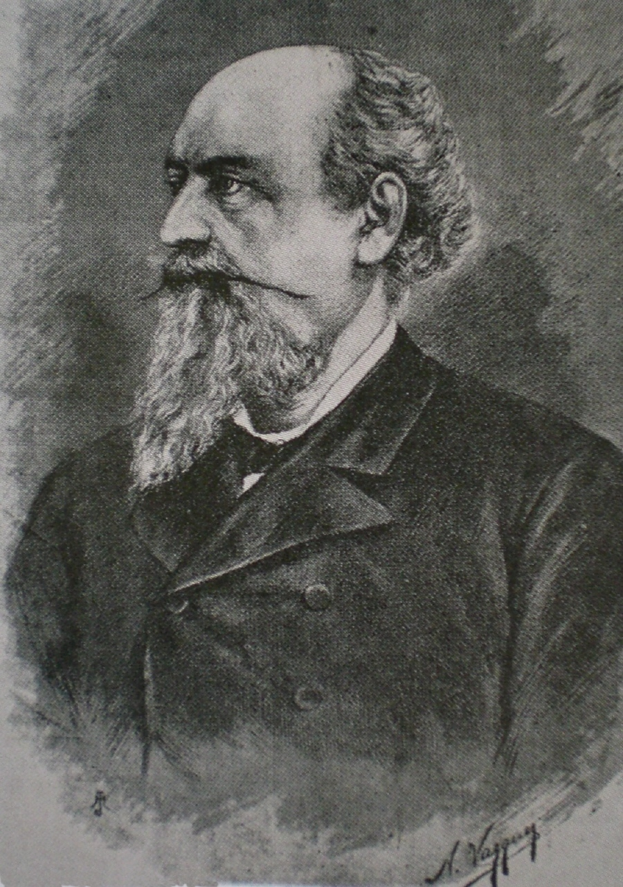 Portrait of Antonio Guzmán Blanco of old age.